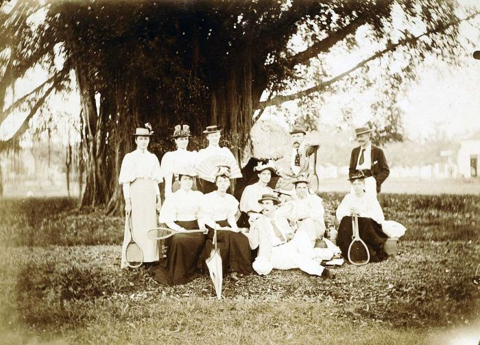 Group portrait at the tennis club